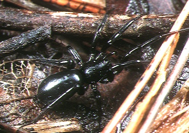 female Zelotes iriomotensis from Okinawa.